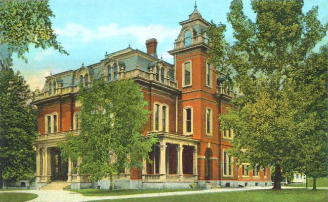 Public Library, Keene, NH. The Second Empire mansion was built about 1869 by Henry Colony.